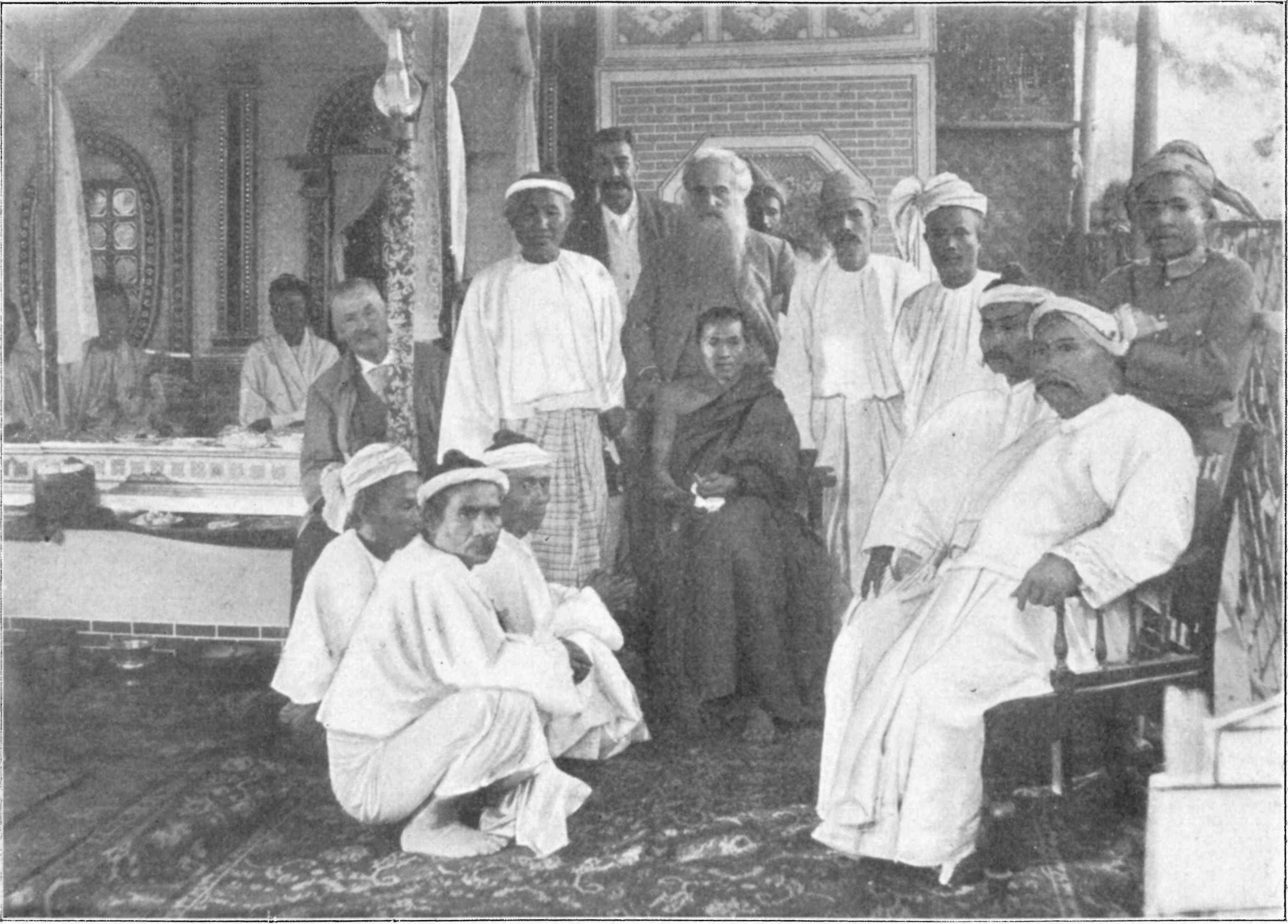 Prince Jinavaravamsa (seated in pilgrim's garb), behind him Colonel Olcott.